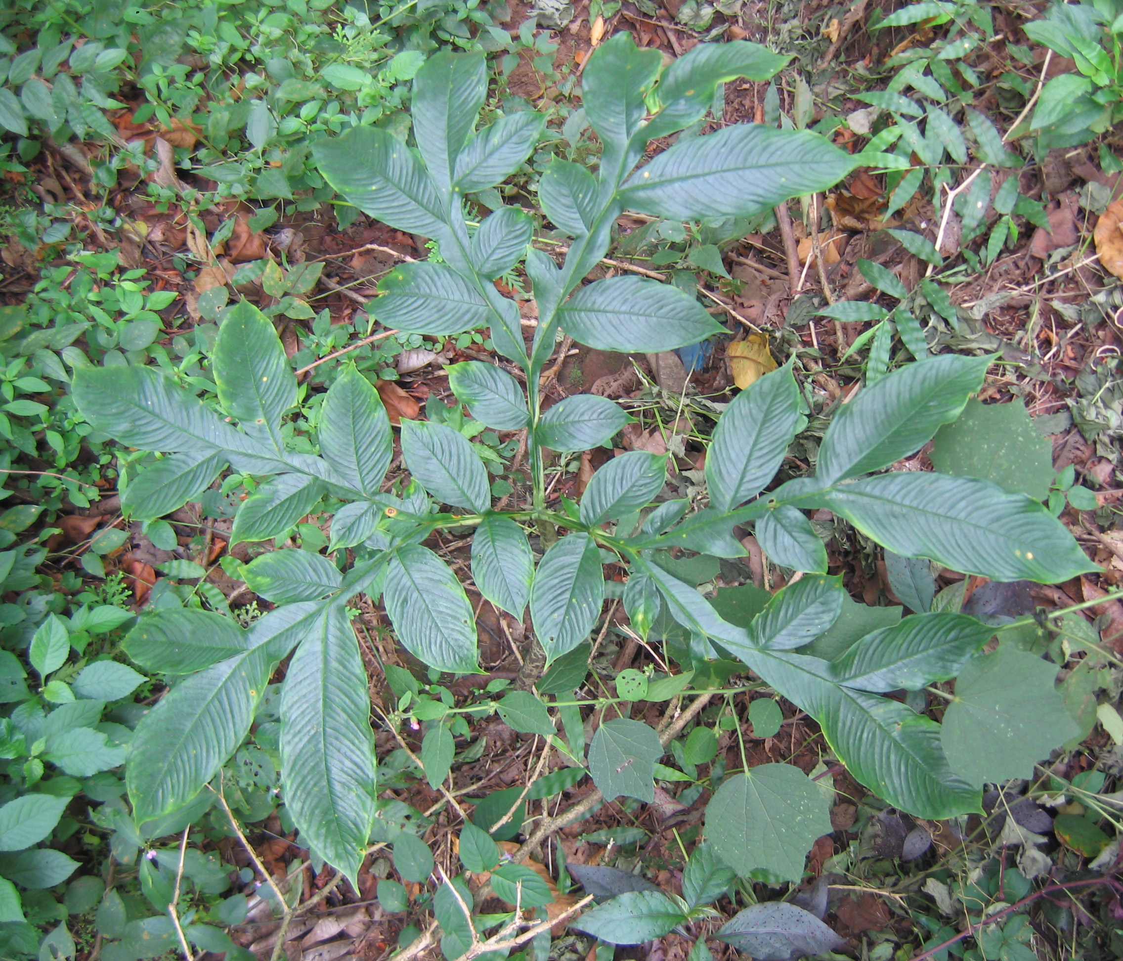 Amorphophallus Sylvaticus